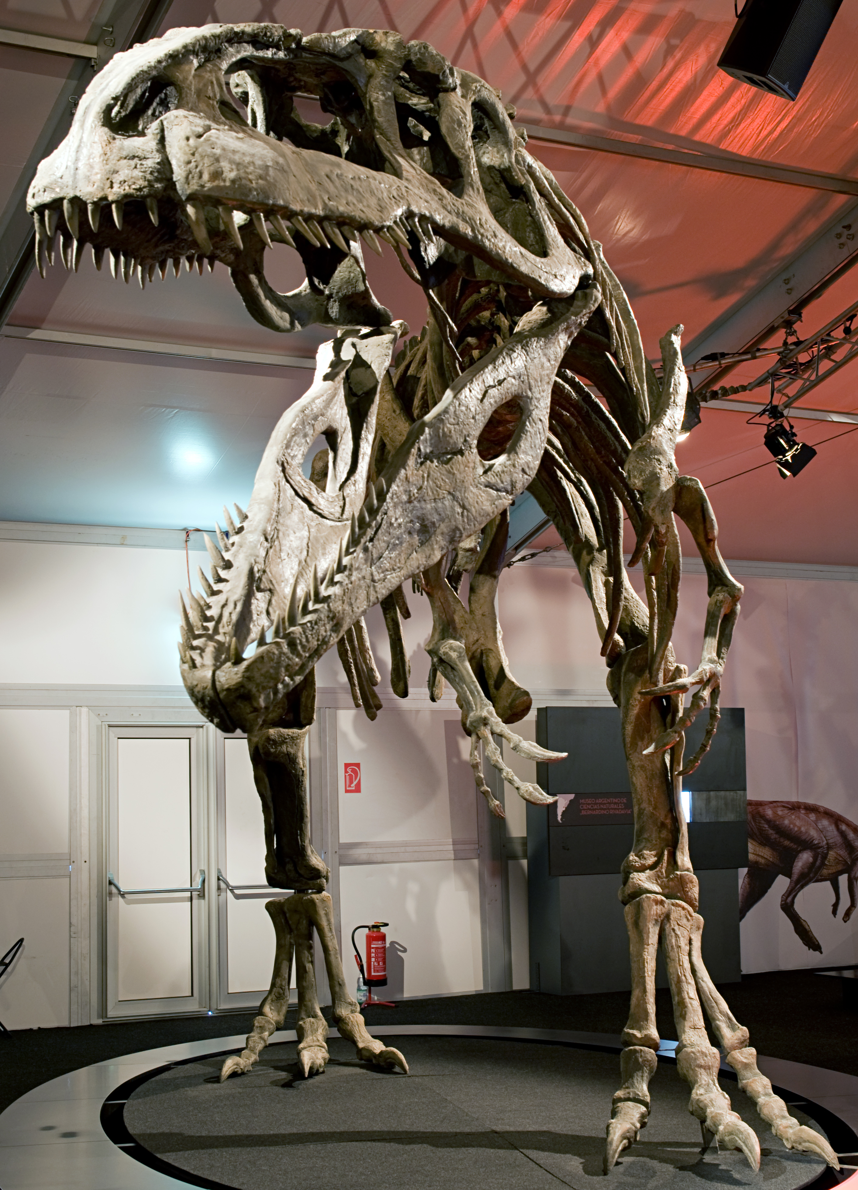 Skeleton replica of a Giganotosaurus carolinii